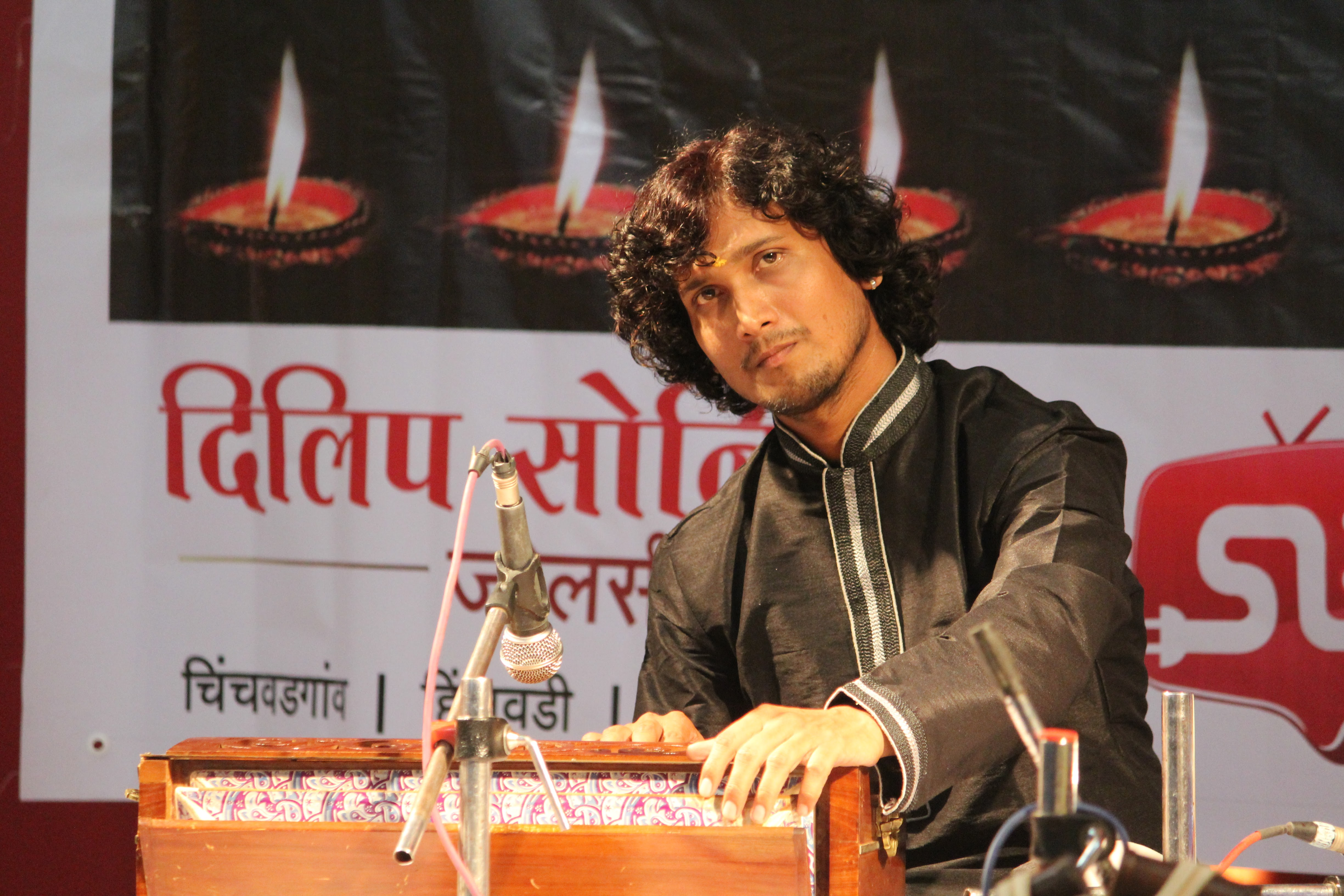 Santosh Ghante playing harmonium